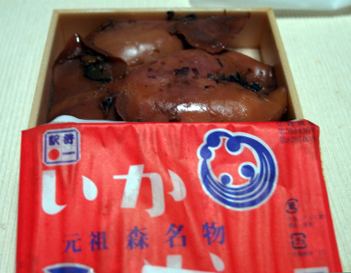 Ikameshi as an ekiben, available at Mori Station, Hokkaidō.